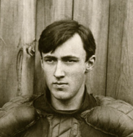 This is a historic photograph of Clarence Russell, collegiate football coach in the early 20th century.